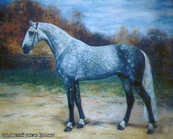 Sergey Voroshilov